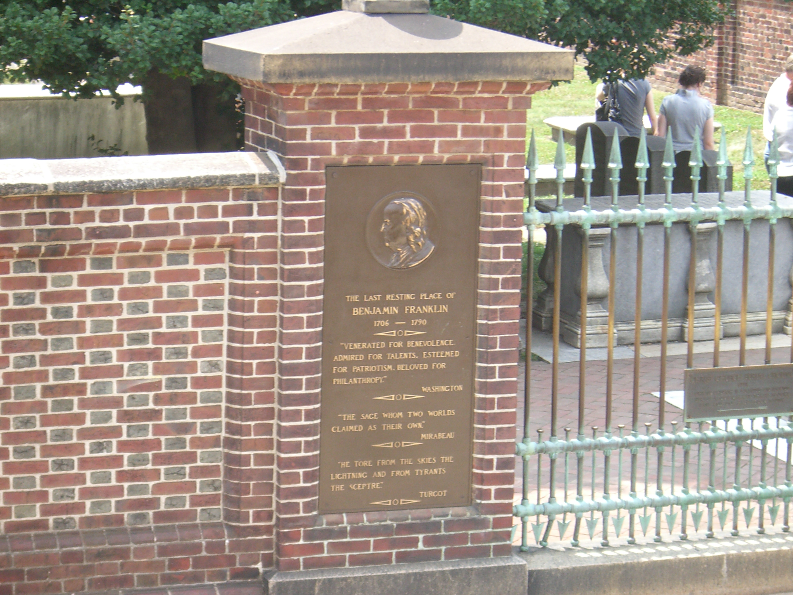 Benjamin Franklin, Philadelphia Cemetery